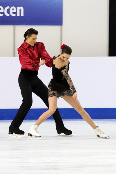 Lorraine McNamara and Quinn Carpenter - 2016 Junior Worlds